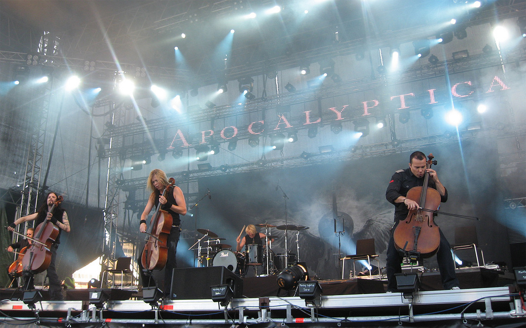 Taken in the middle of the great performance, this photo shows all the members in action.